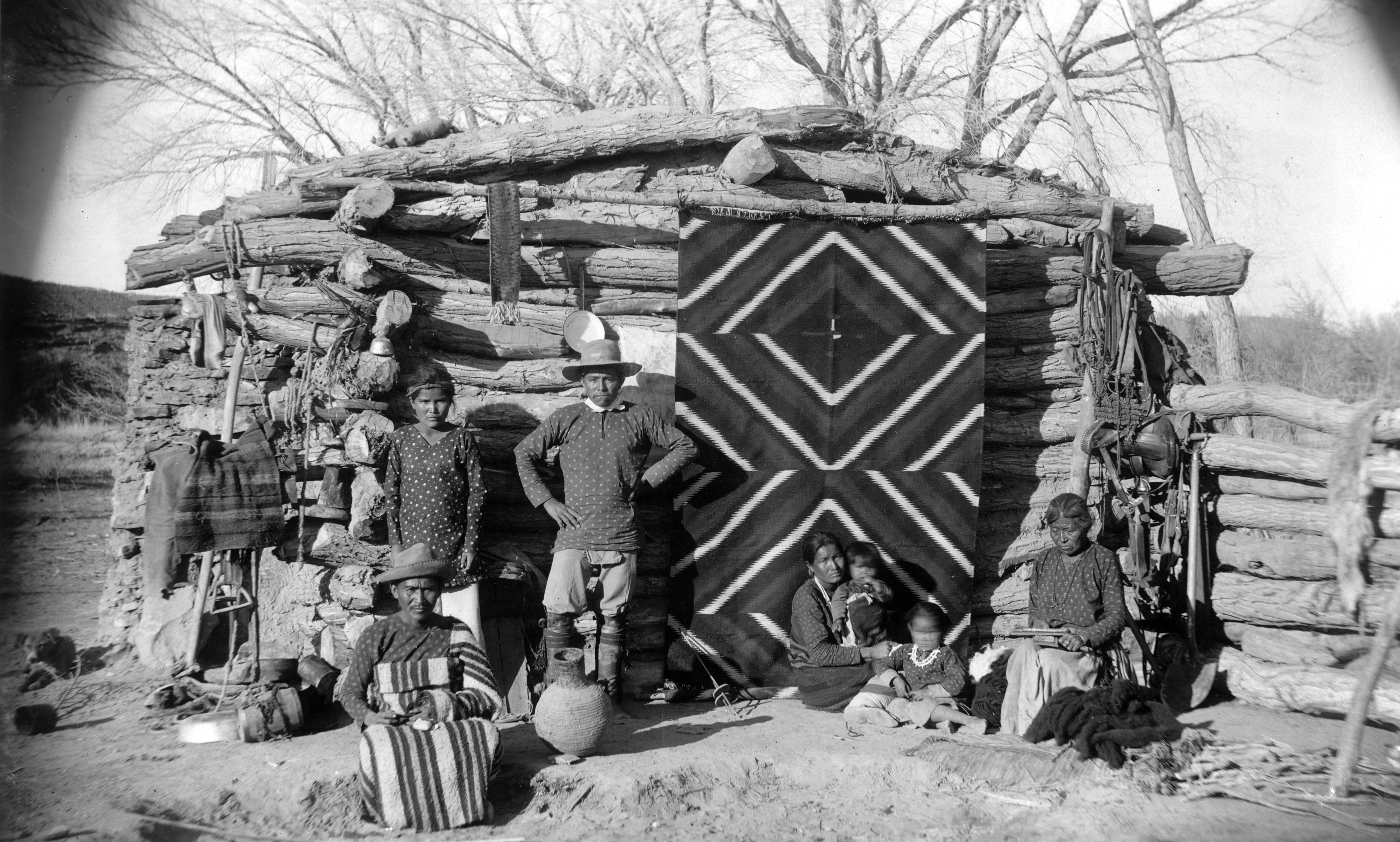 A Native American (Navajo) family (men, women, and children) pose near a timber and earth hogan near Bluff City (Bluff), Utah. A rug, a cloth belt, and horse tack hang from the house. One man sits near a clay water jar.